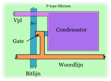 1T-1C DRAM cel with metal gate electrode and metal plate electrode.